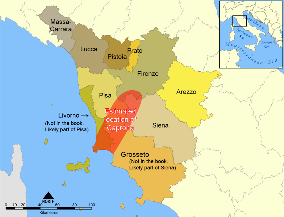 Present day map of the Tuscany region in Italy indicating the estimated location of Caprona, a fictional italian city-state which is featured prominently on Diana Wynne Jones' book "The Magicians of Caprona". This map is not precise, since Caprona is only supposed to border the city-states of Pisa, Firenze and Siena, yet still have a coastline. In the book universe, the city-states of Grosseto and Livorno were likely still part of the neighboring states.